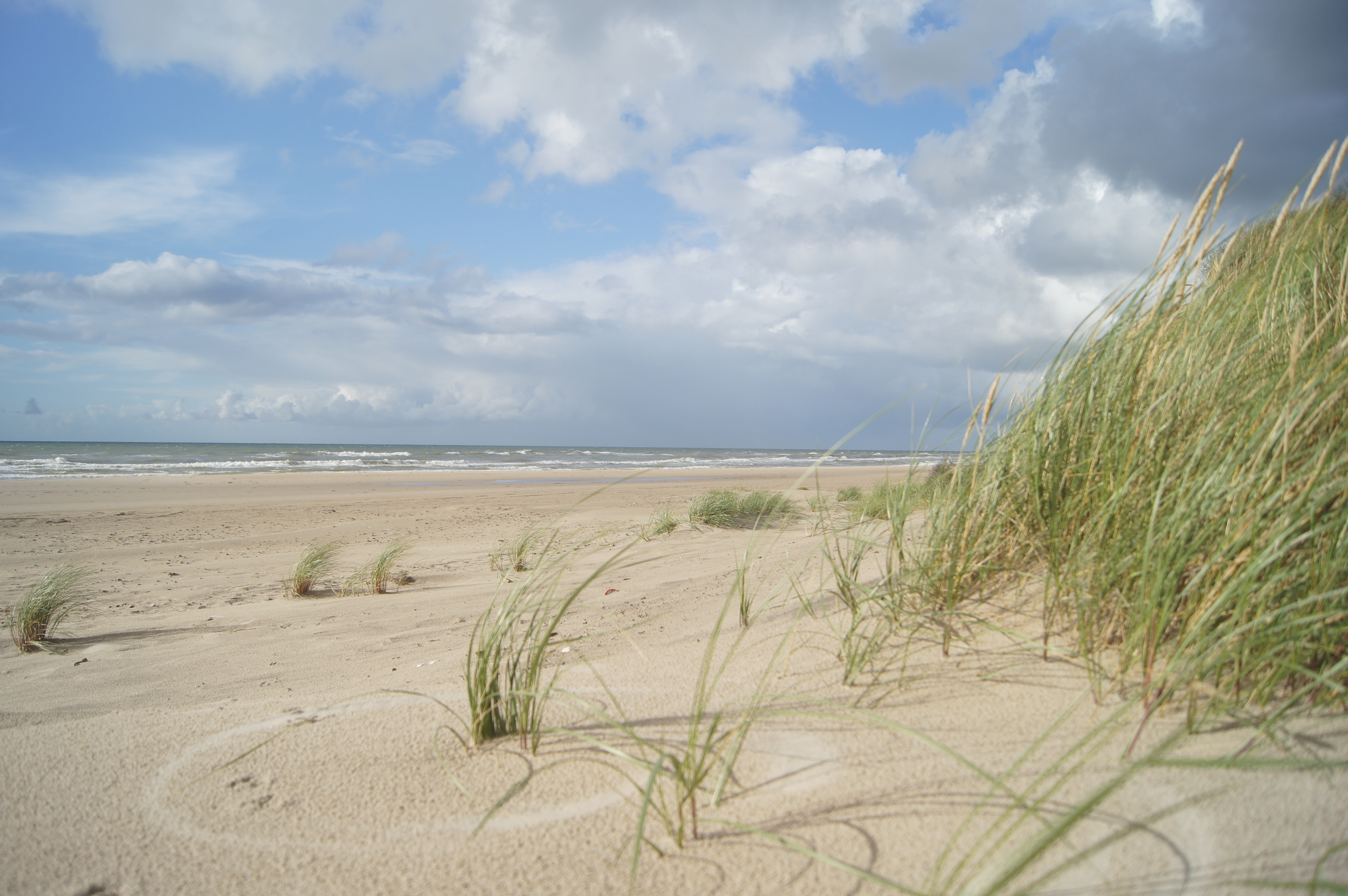 At the Jammerbugt near Blokhus